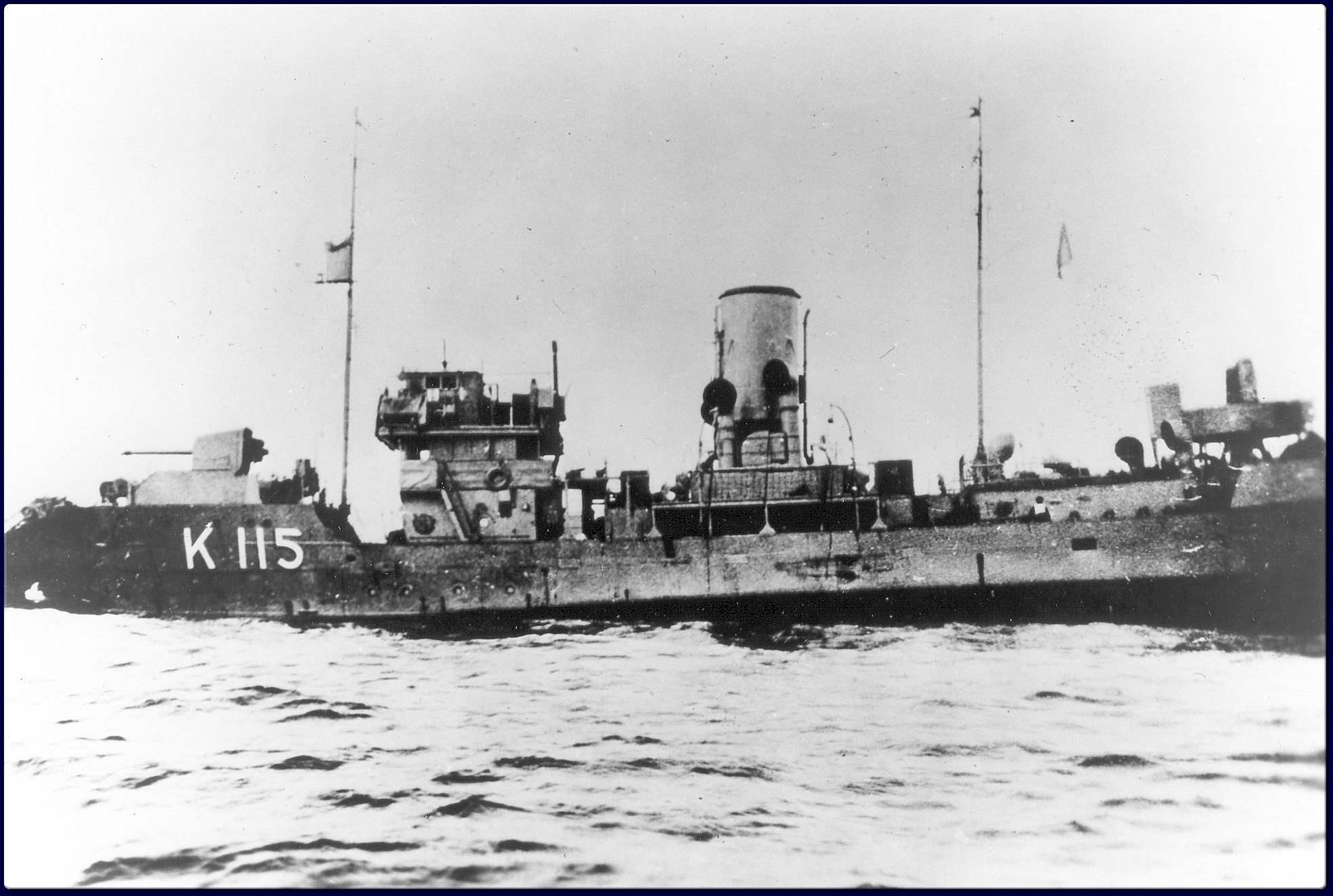 HMCS Lévis just before sinking, 19 September 1941.